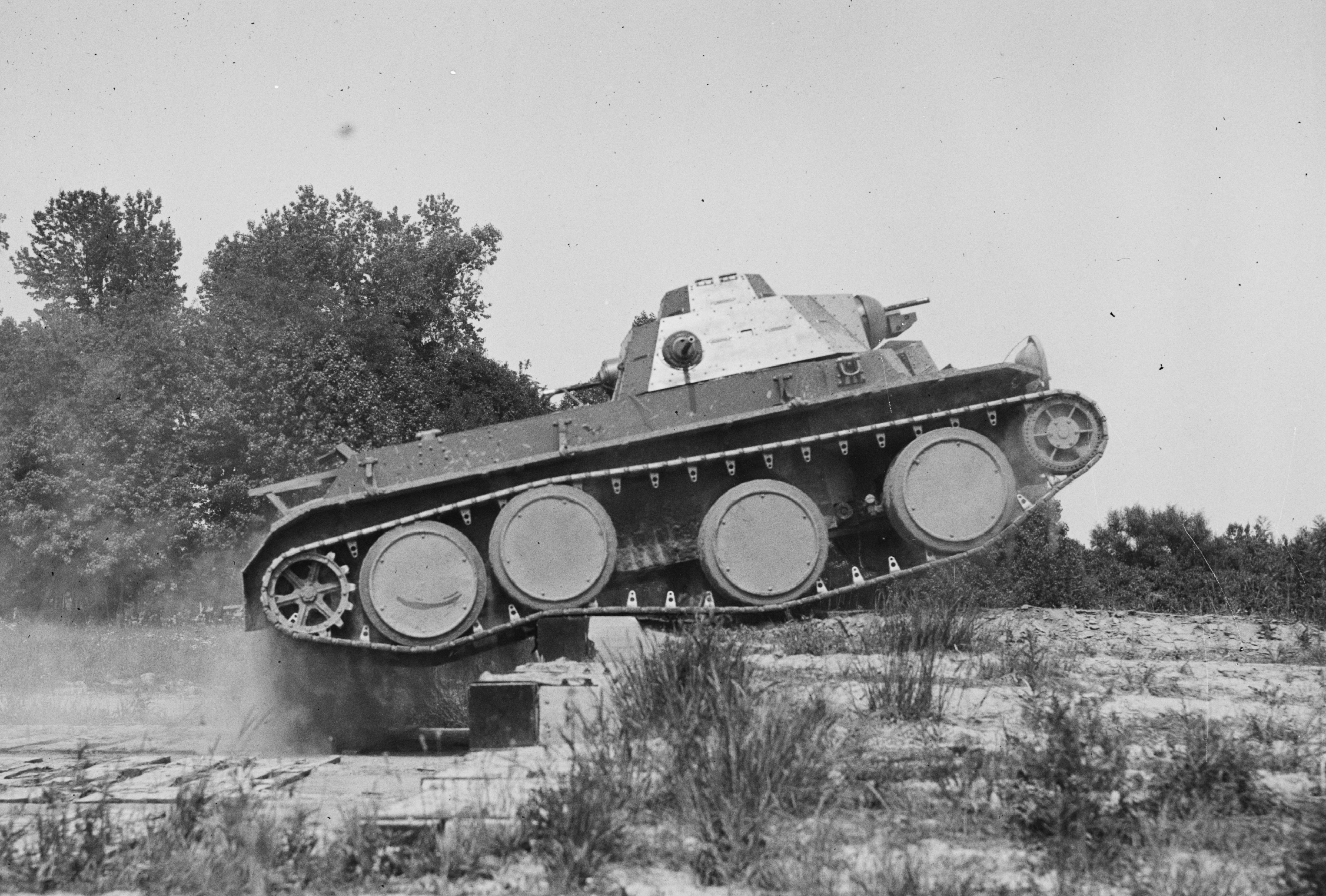 Christie T3E2 tank undergoing tests, location unknown.